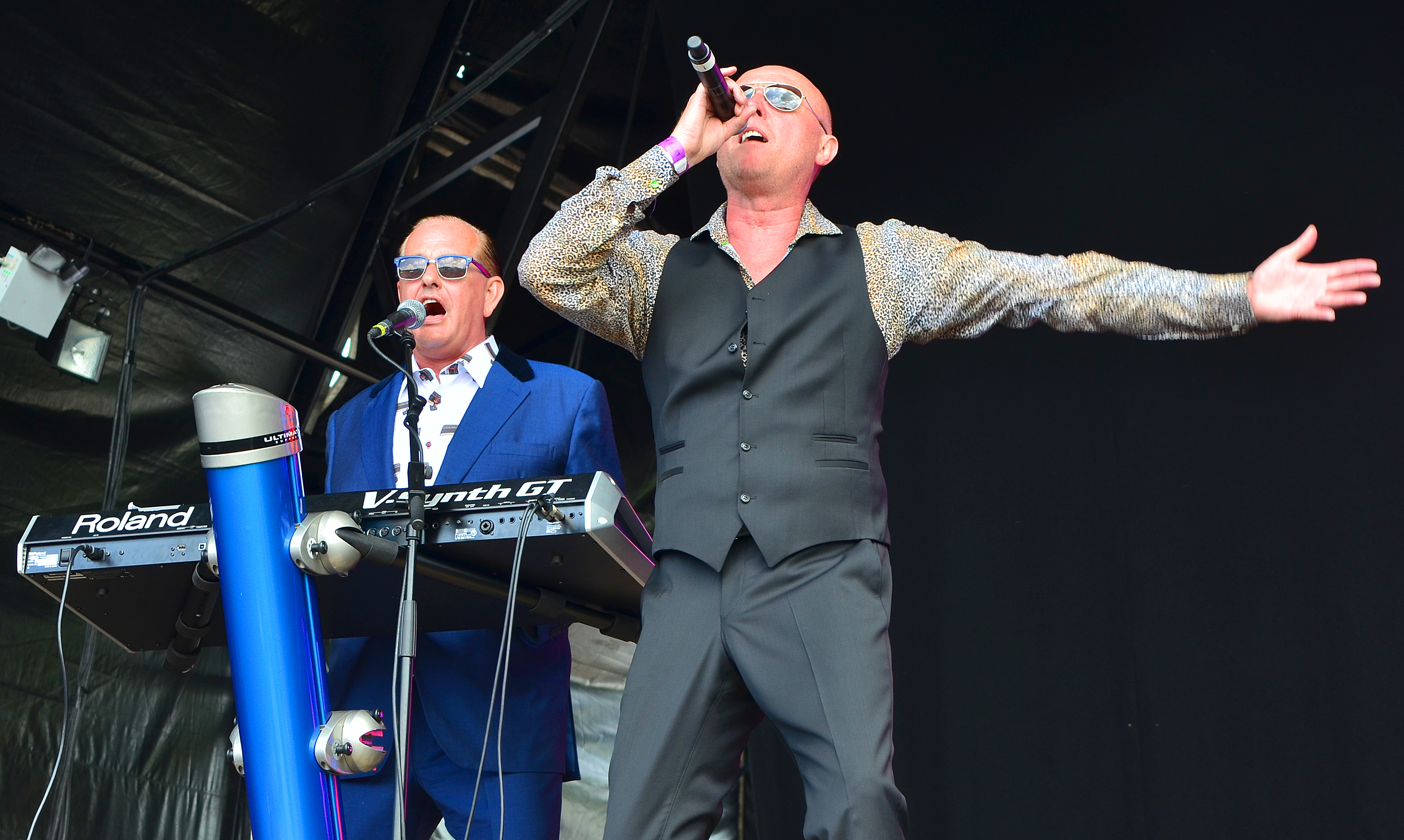 Martyn Ware (left) and Glenn Gregory (right) of Heaven 17 performing in 2014